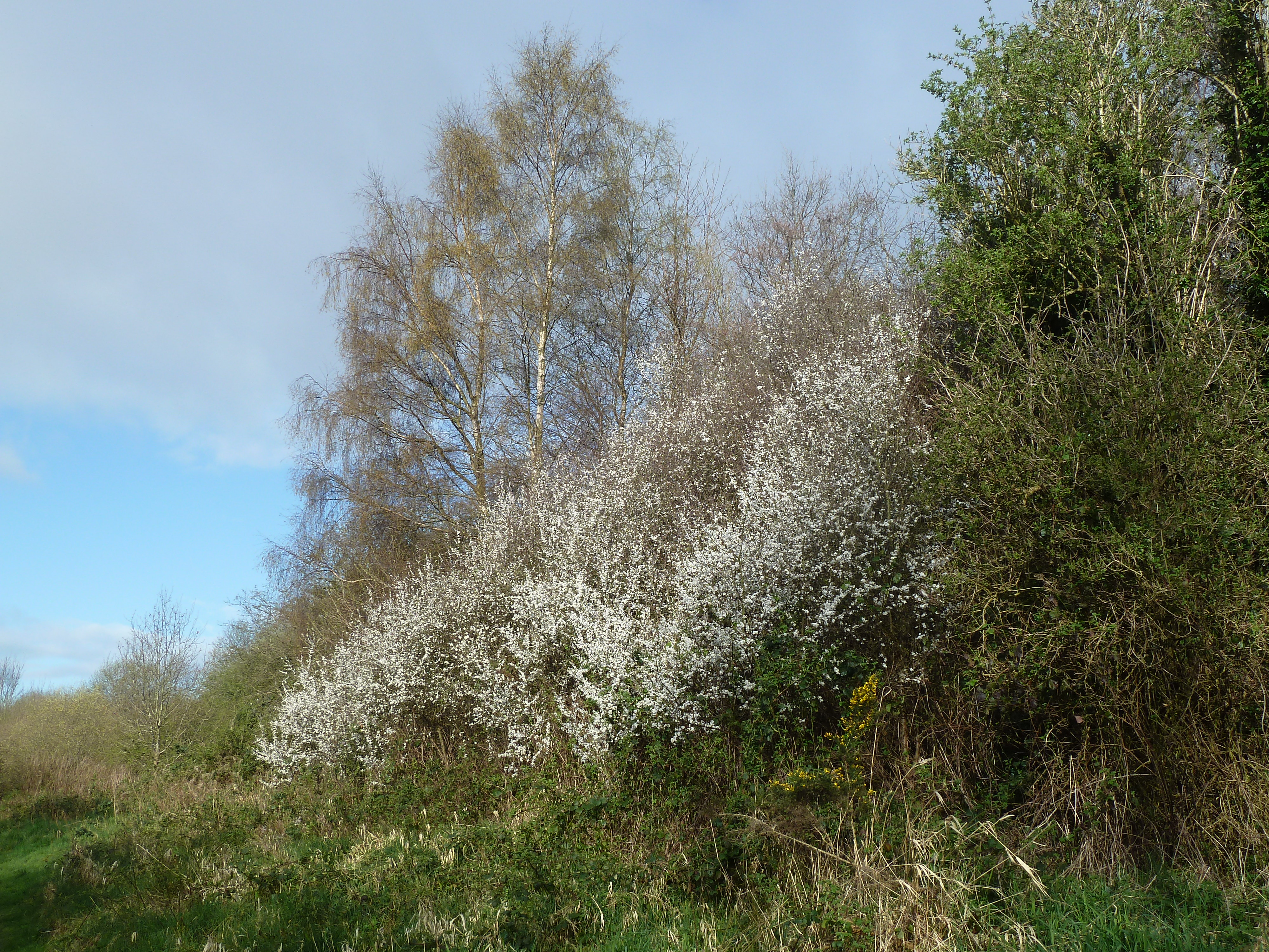 Habitat Hilden, Co.Antrim, Ireland early April, 2014